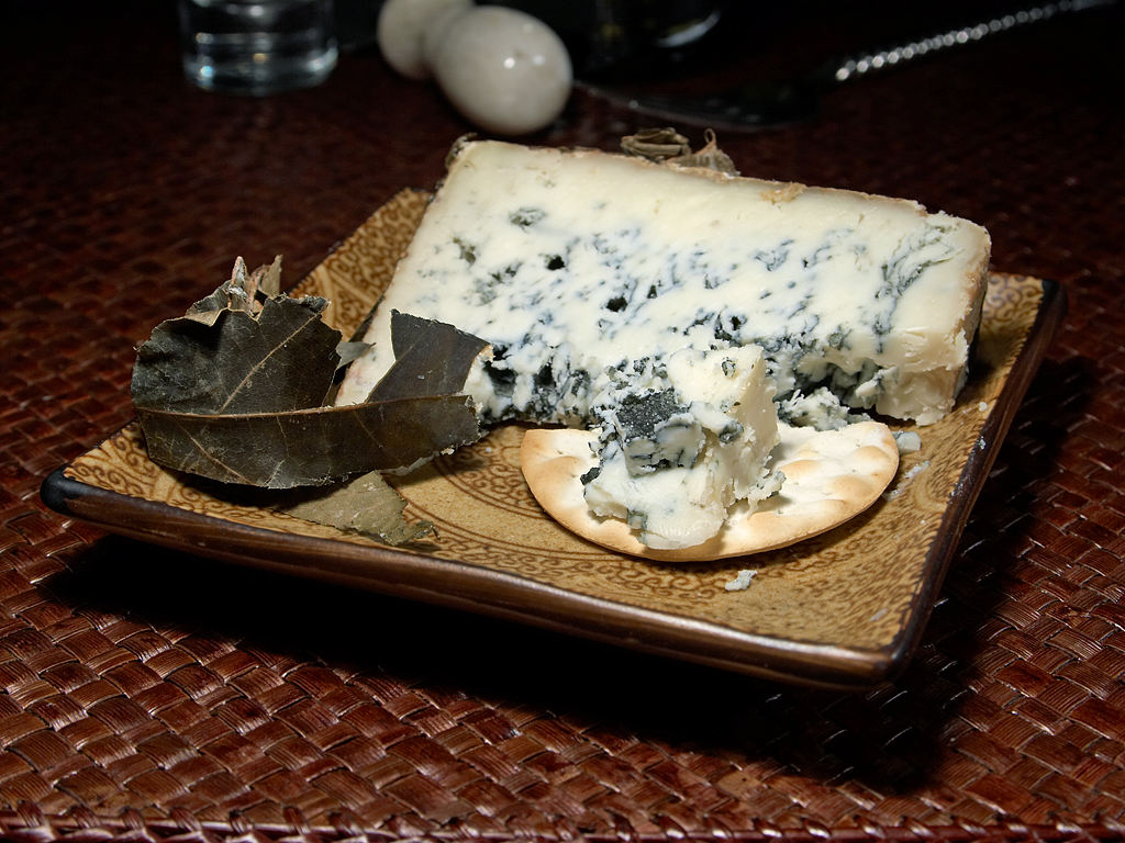 Cabrales blue Cheese with leaf wrapping